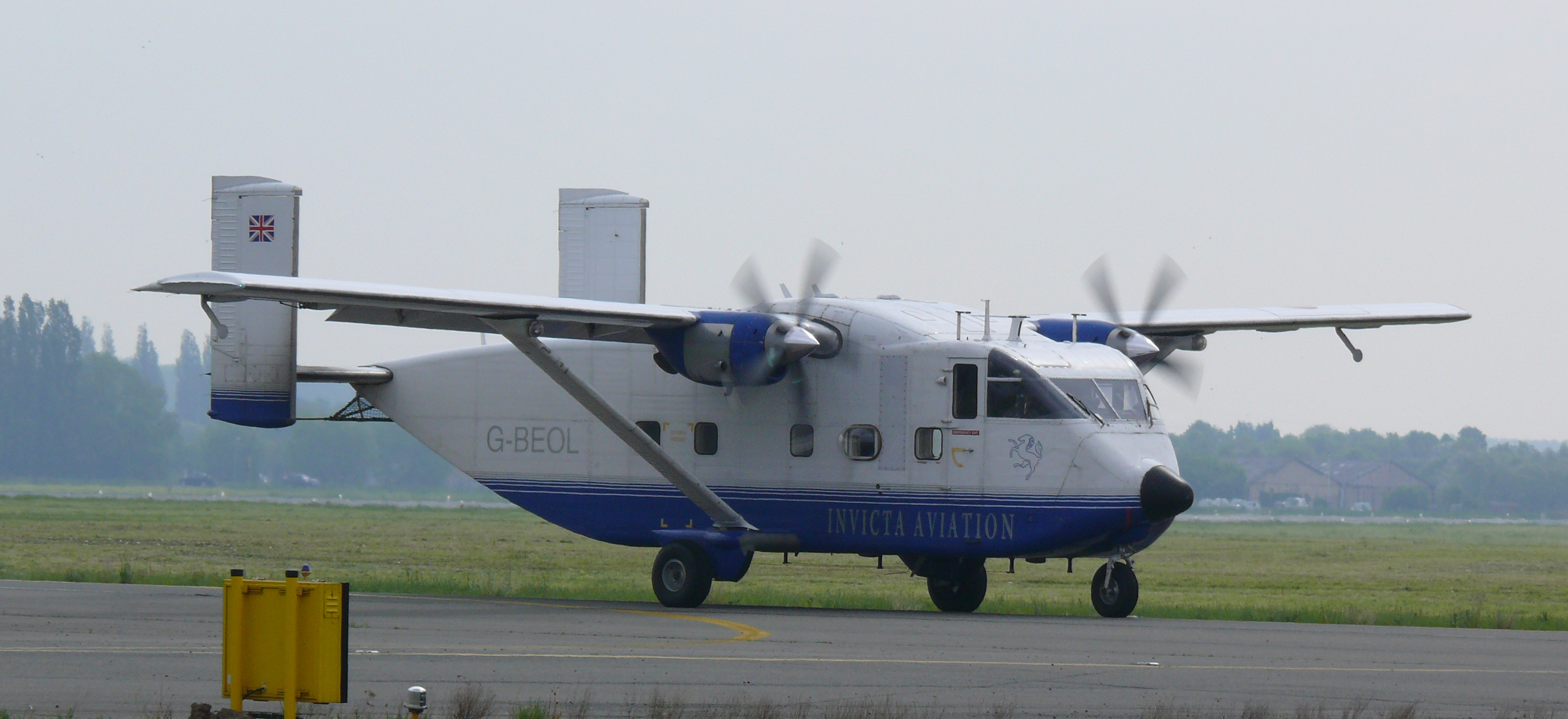 Invicta Aviation Short SC-7 Skyvan 3-100 at Antwerp International Airport.